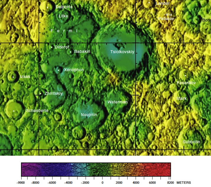 Part of the far side lunar chart is used for the presentation